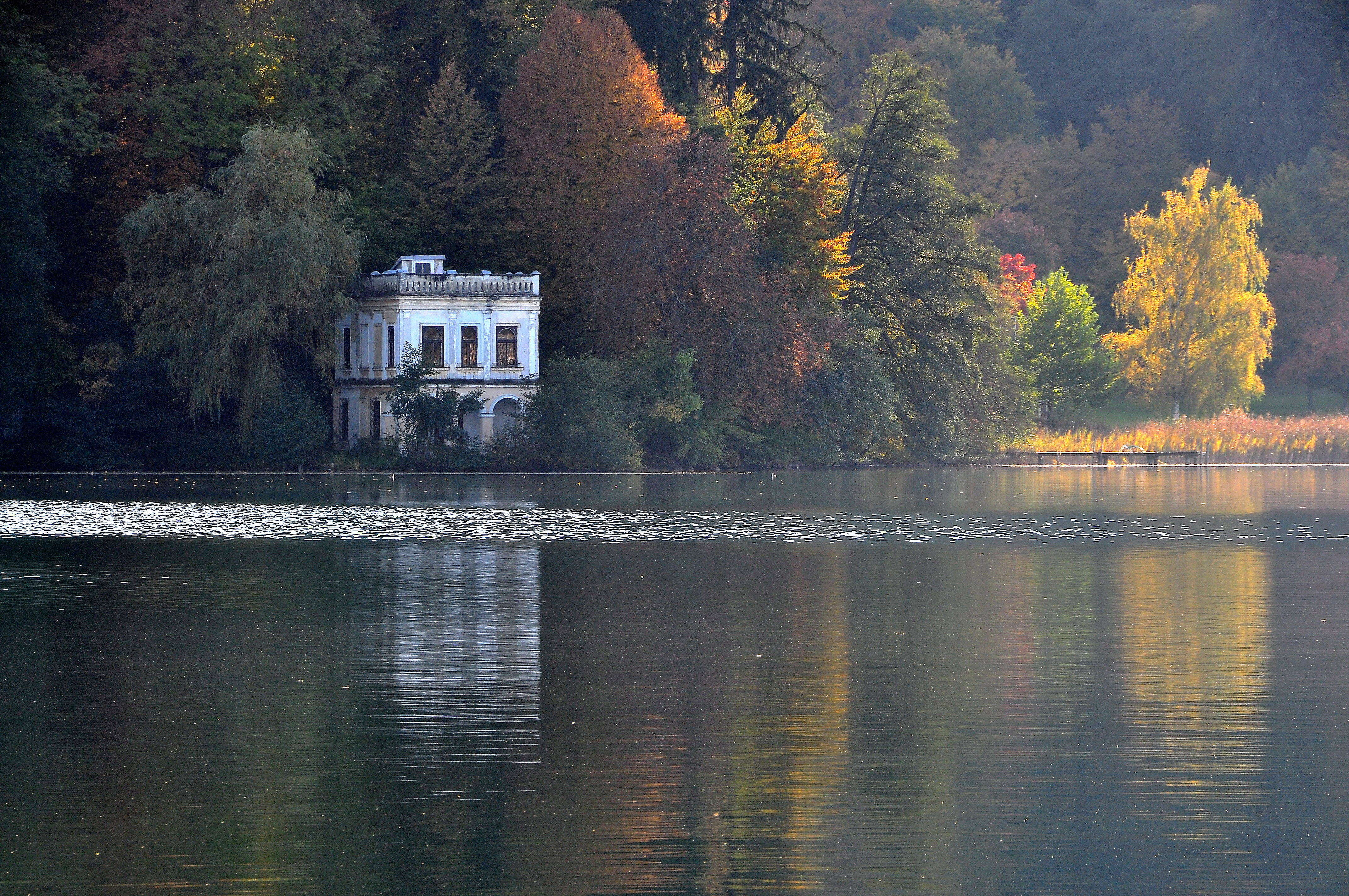 Lake villa Samek on Wörthersee-Süduferstrasse in Maiernigg, statutary city Klagenfurt am Wörther See, Carinthia, Austria, EU